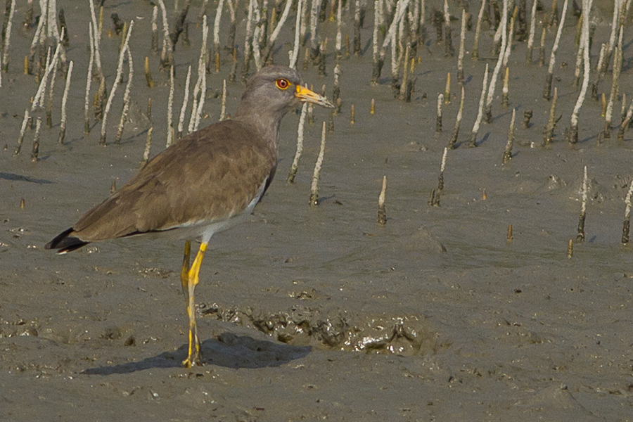 The specie Grey-headed Lapwing had been photographed during the bird photography trip to Sundarbans by GoingWild at Godkhali, West Bengal, India on 17.12.2014.